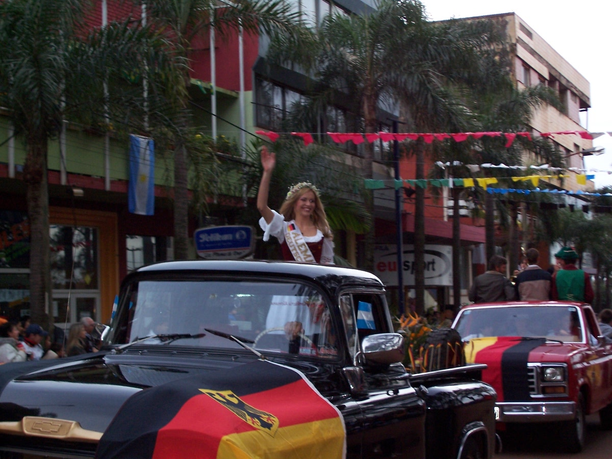 Elianne Oswald, queen of the Germany collectivity, during the inaugural parade of the XXVI Immigrant's National Festival, in Oberá, Misiones, Argentina. Thursday, 8th September was chosen as National Queen of the Immigrant edition 2005.